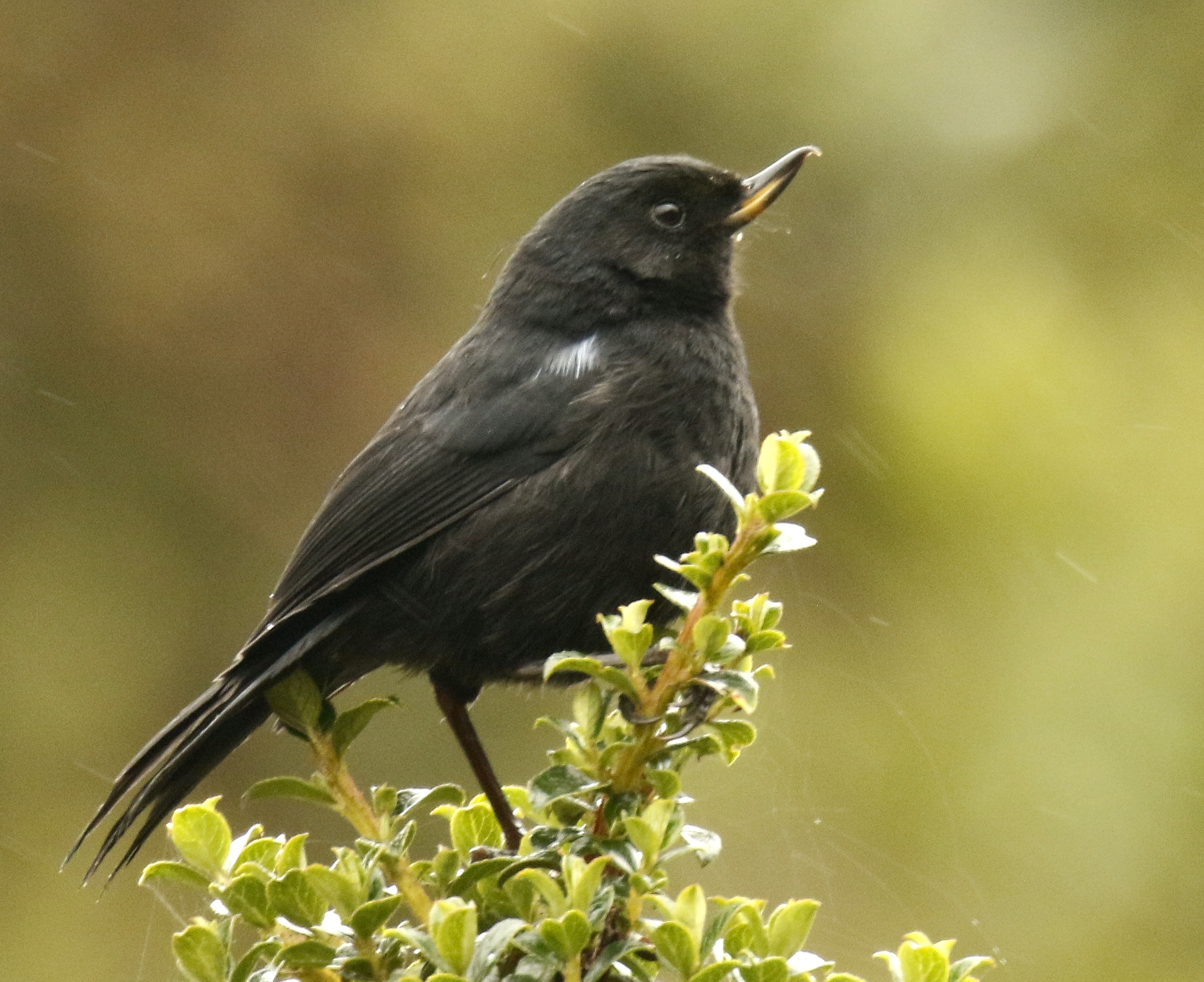 Papallacta Pass - Ecuador